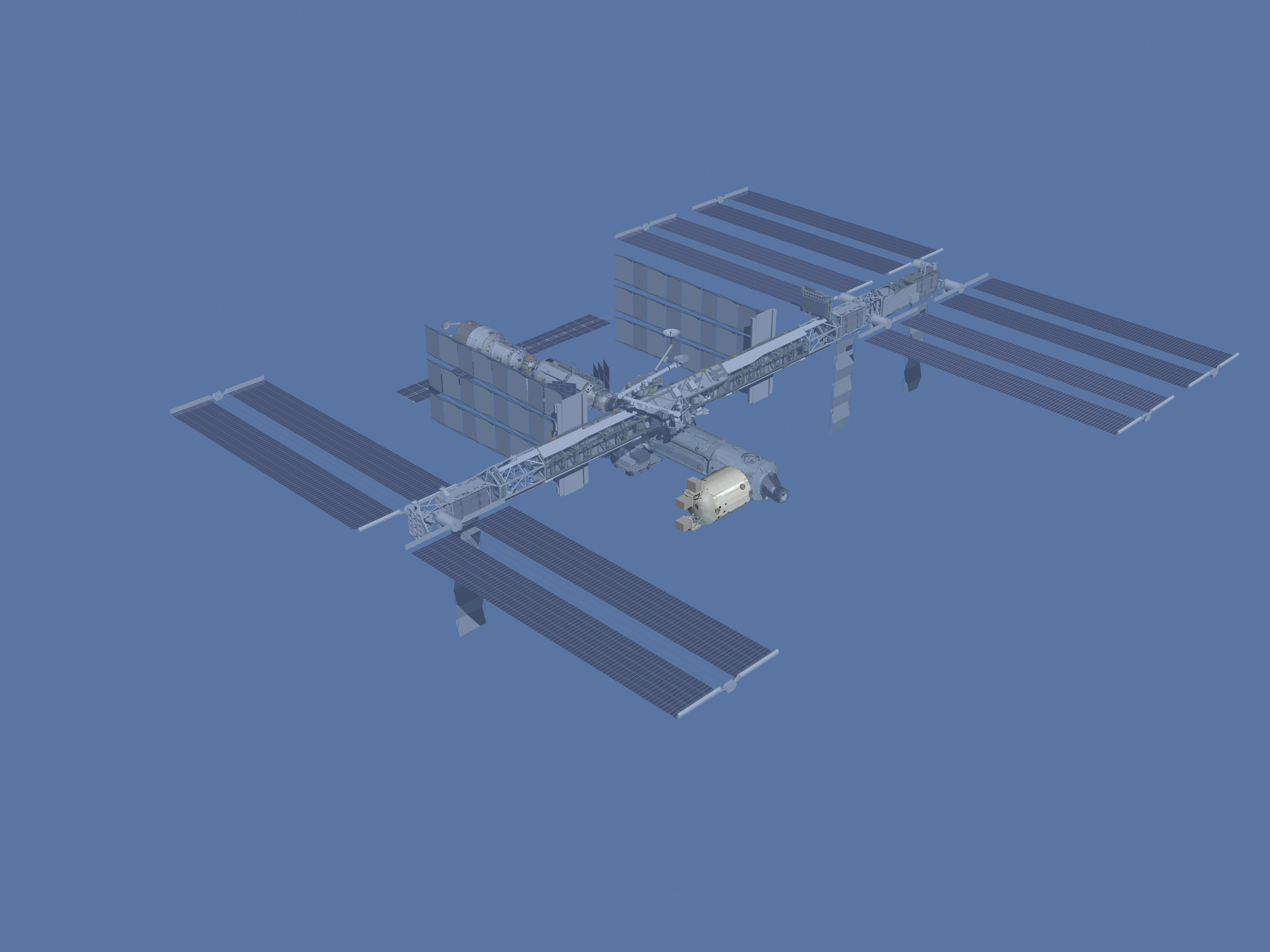 Computer-generated artist’s rendering of the International Space Station after flight STS-122/1E. Columbus European laboratory module with Multi-Purpose Experiment Support Structure - Non-Deployable (MPESS-ND) is delivered and installed.